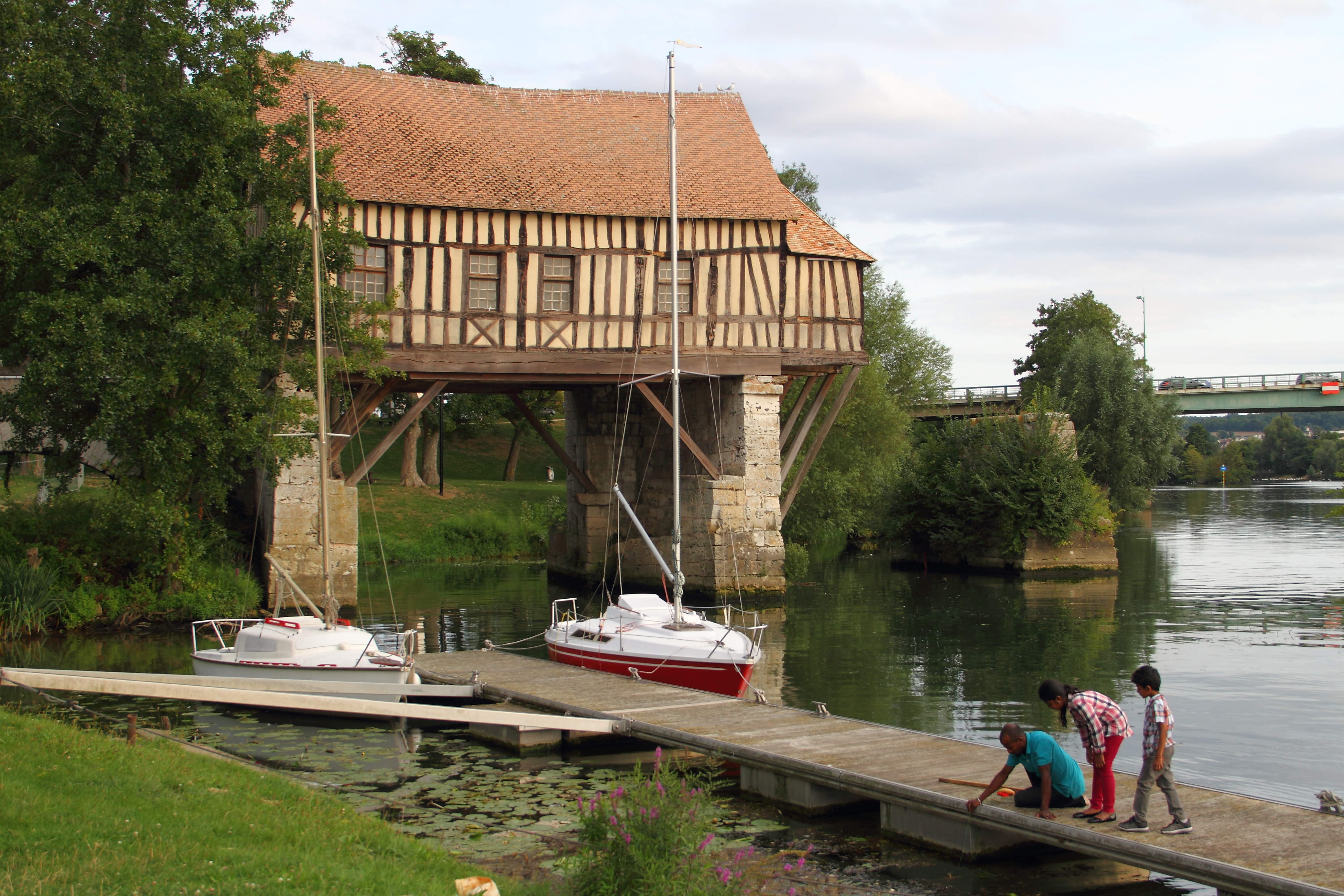 The Old Mill in Vernon is standing on the leftovers of an old bridge from the Middle Ages over the river Seine. It´s been for several times a motive for paintings of Claude Monet.